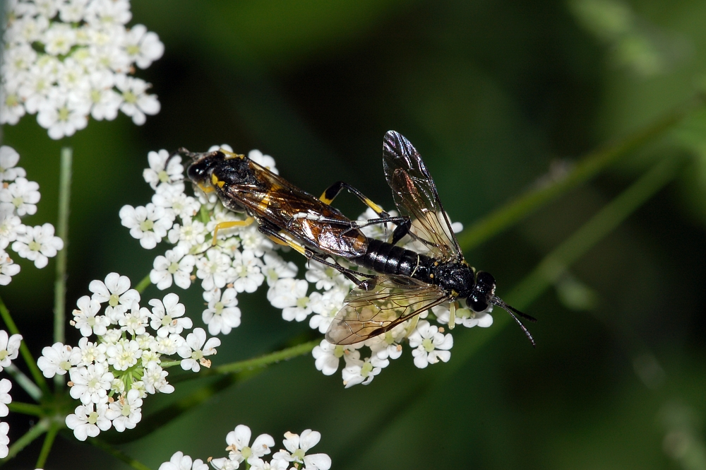 Macrophya montana, Darmstadt, Germany